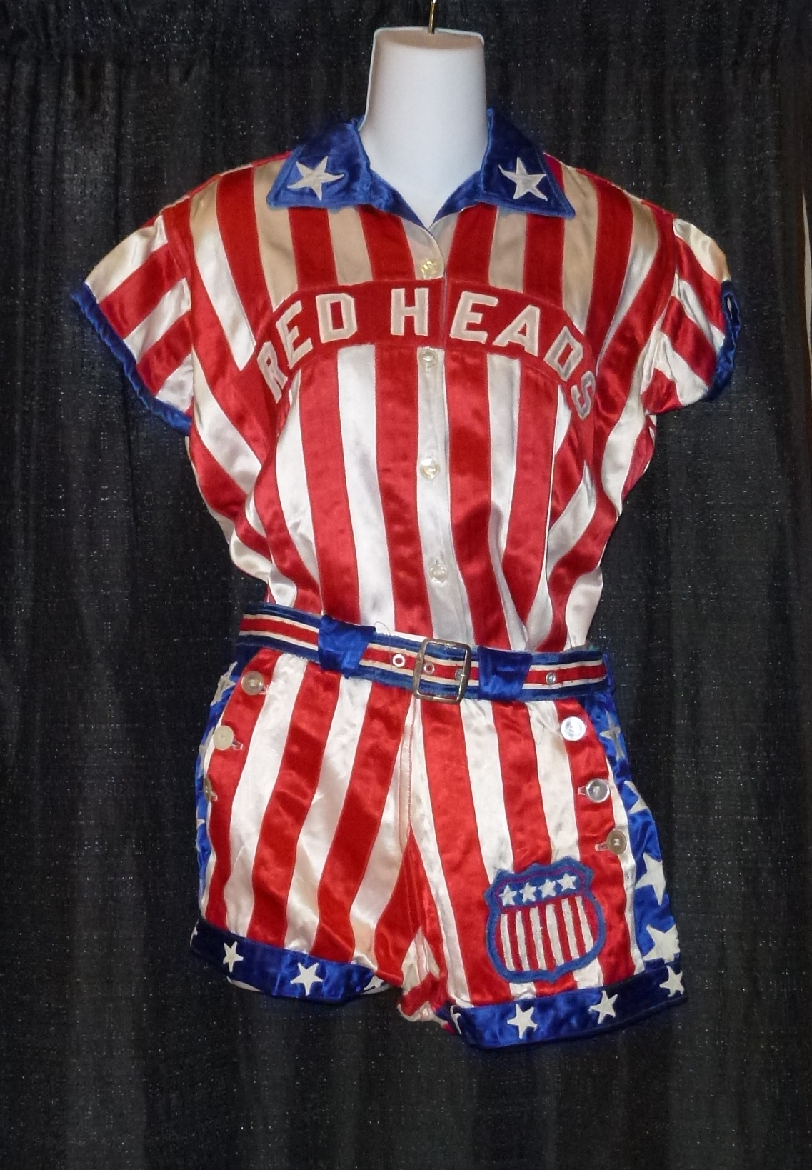 Uniform worn by members of the All American Red Heads women's basketball team. From the collection of John Molina.